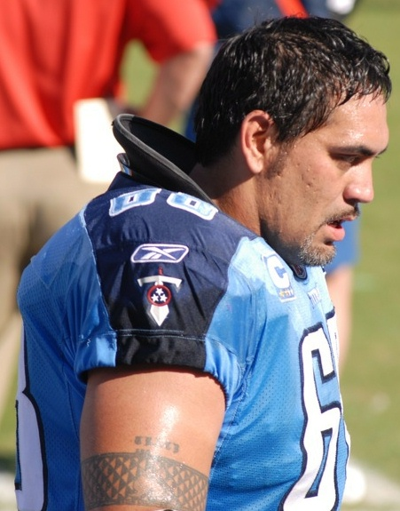 Tennessee Titans center Kevin Mawae on the sidelines during the November 2, 2008 game against the Green Bay Packers at LP Field.